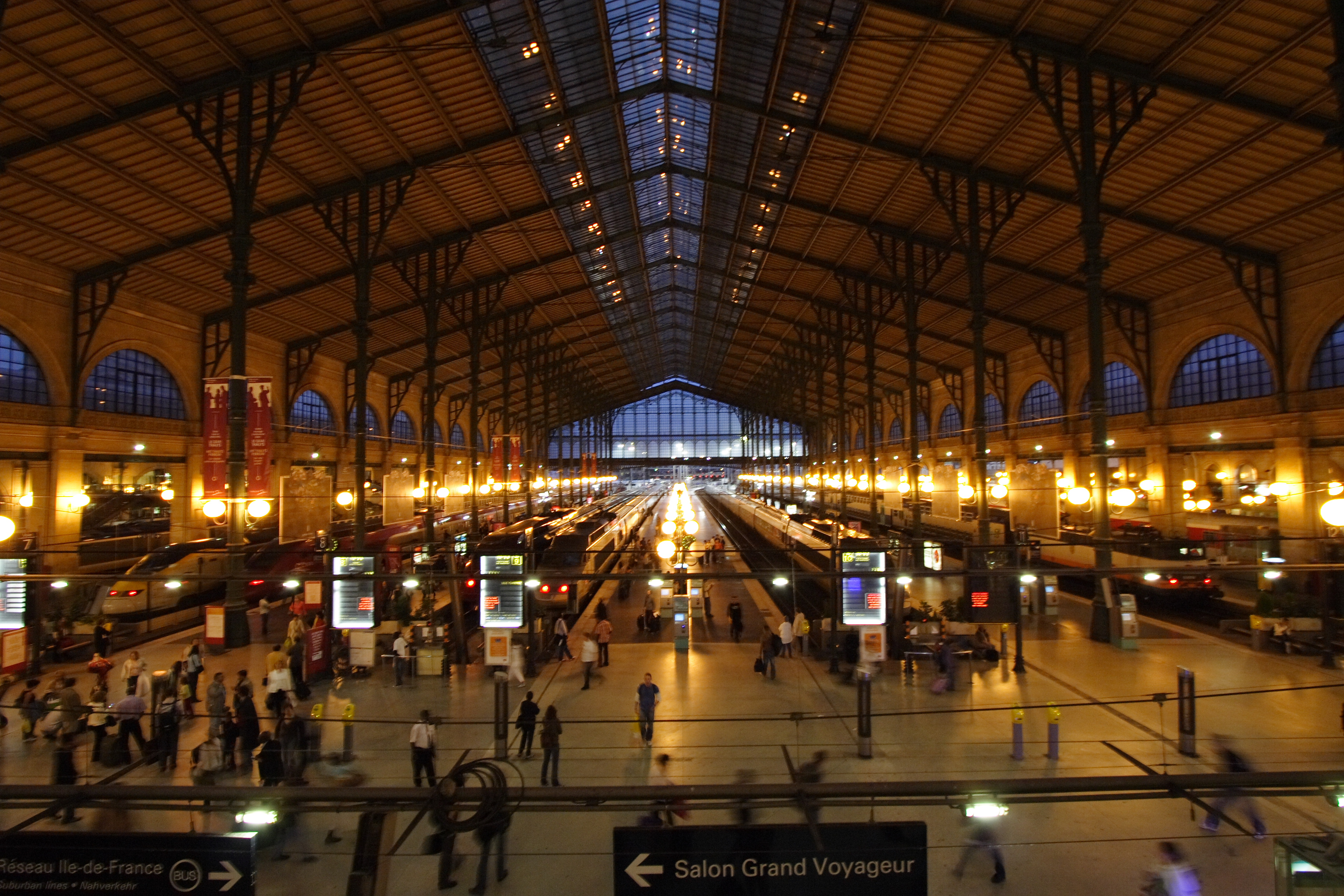 night view of the Gare du Nord(Paris, France)